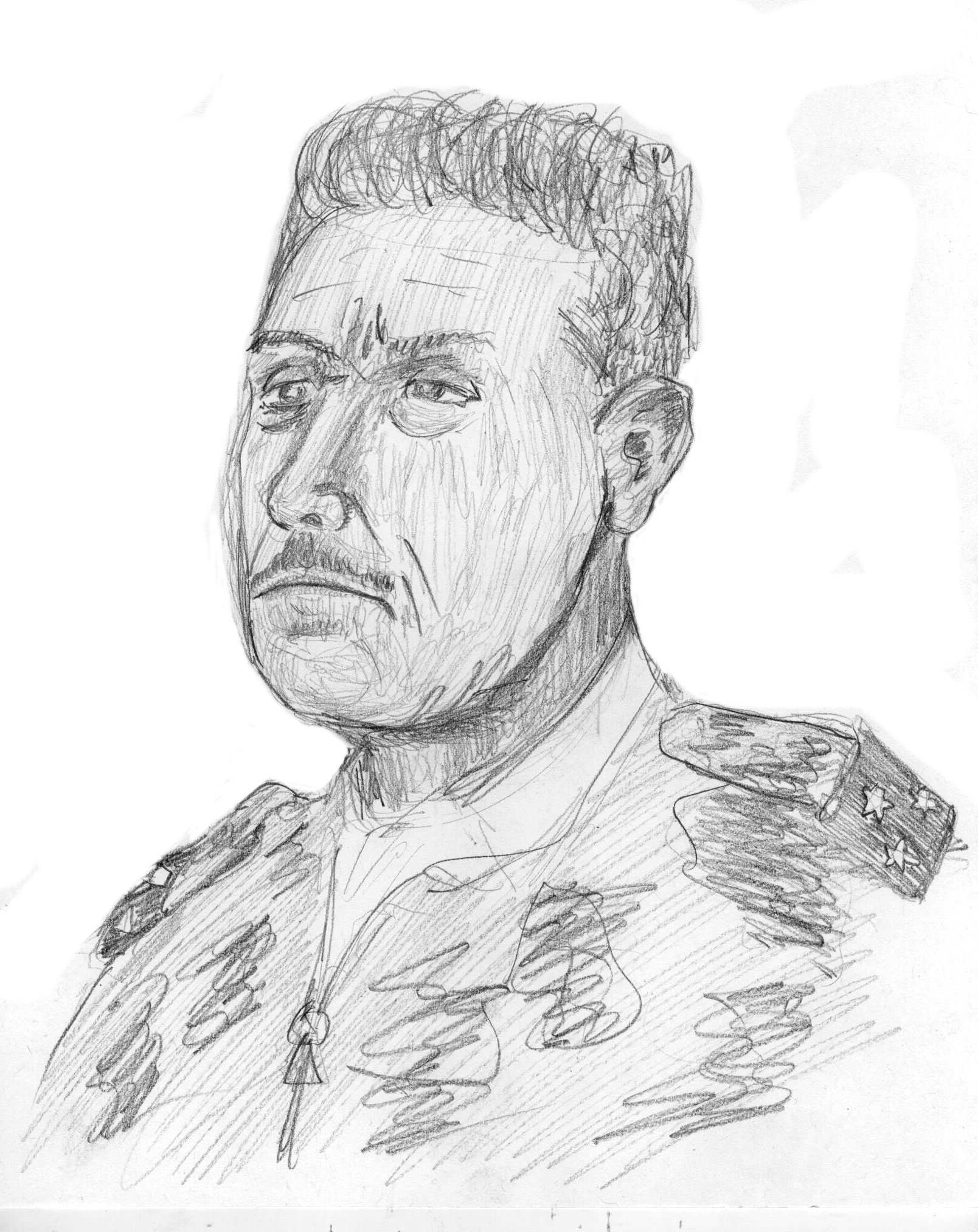 General Jacques Massu